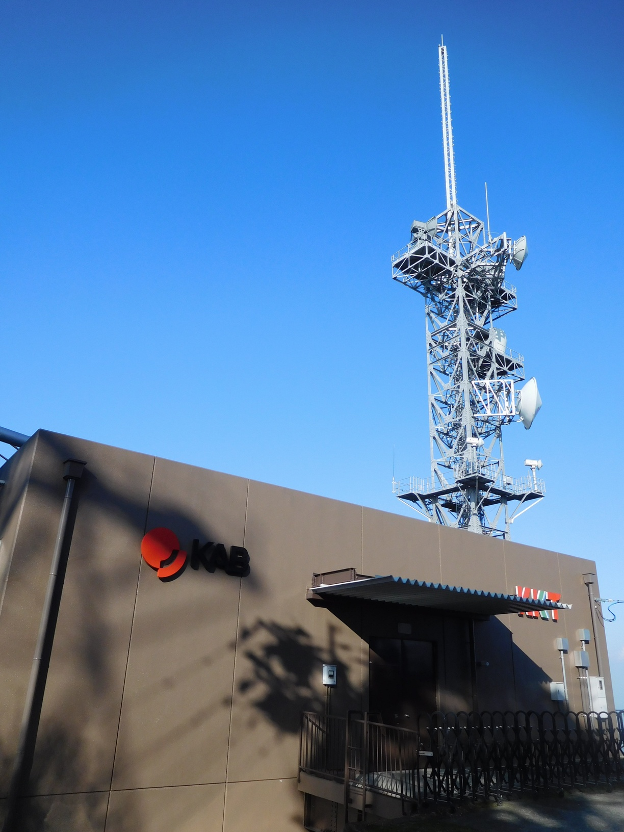 Former Kumamoto Kenmin TV (KKT) and Kumamoto Asahi Broadcasting (KAB) Kinbo-zan (Kumamoto) Transmitting Tower in 2015 (Kumamoto City, Japan)